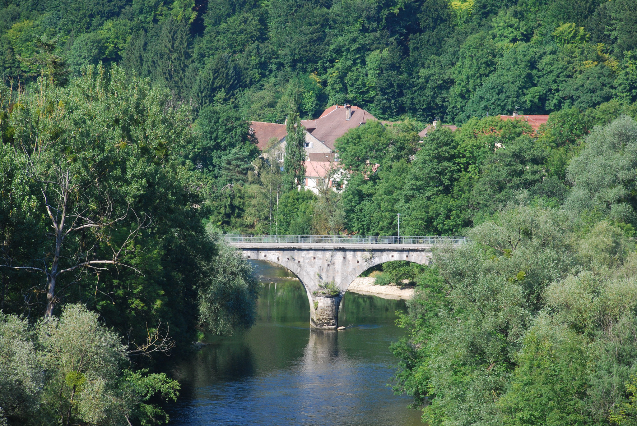 Former railway bridge between Noirefontaine and Villars-sous-Danjoux, Doubs, France